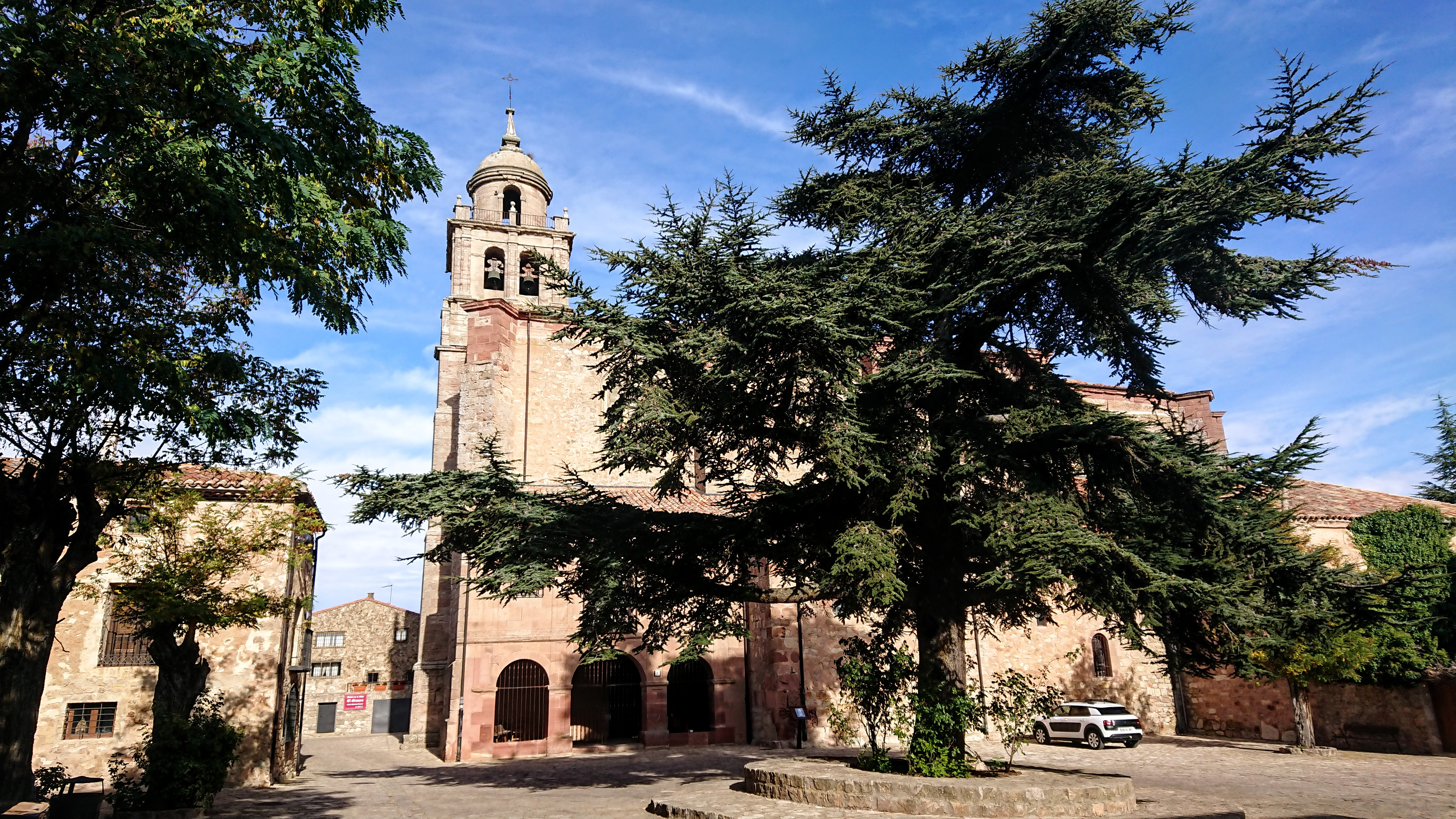 Colegiata de Medinaceli, Soria (Spain)